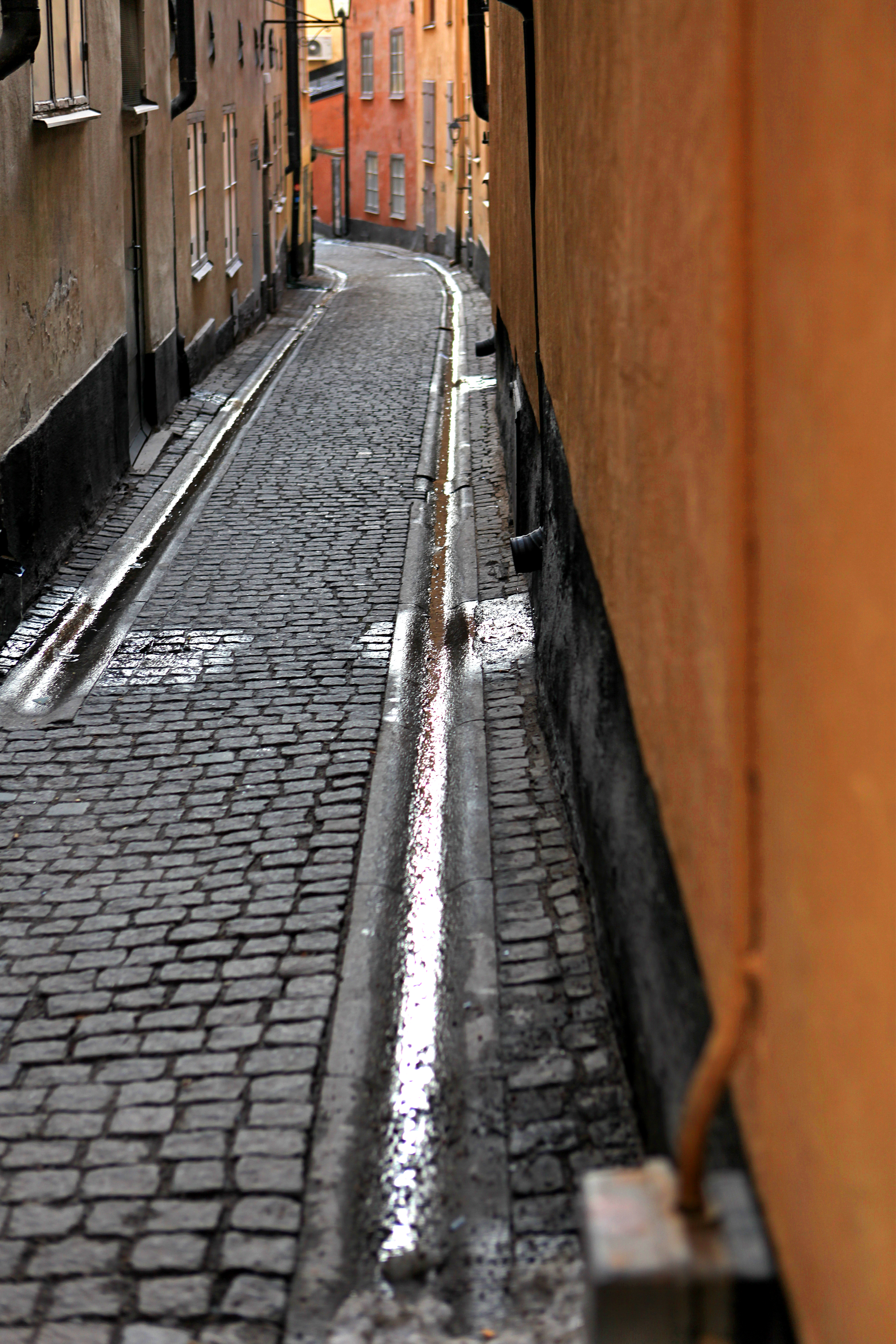 Alley in Old Town Stockholm